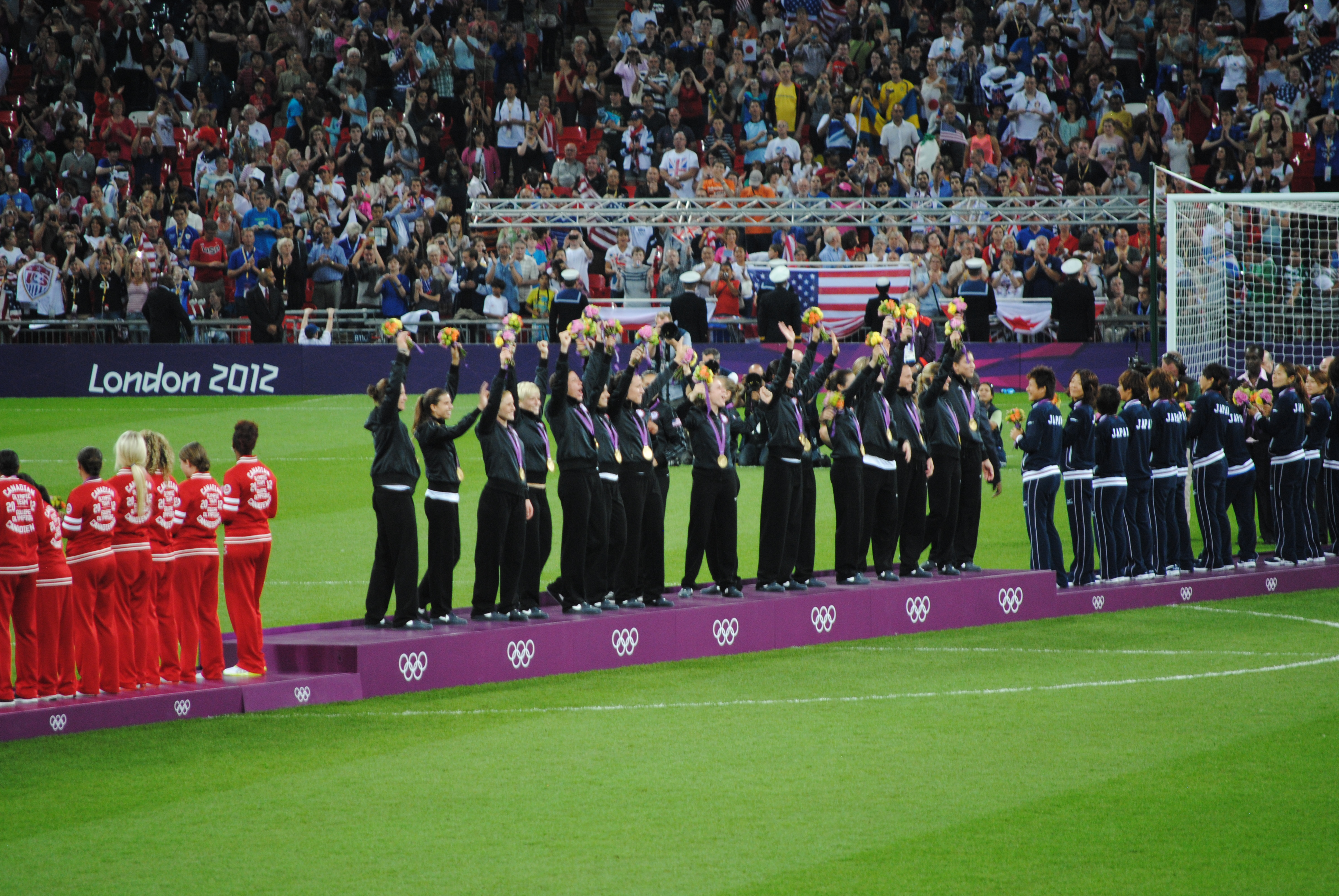 Association football at the 2012 Summer Olympics